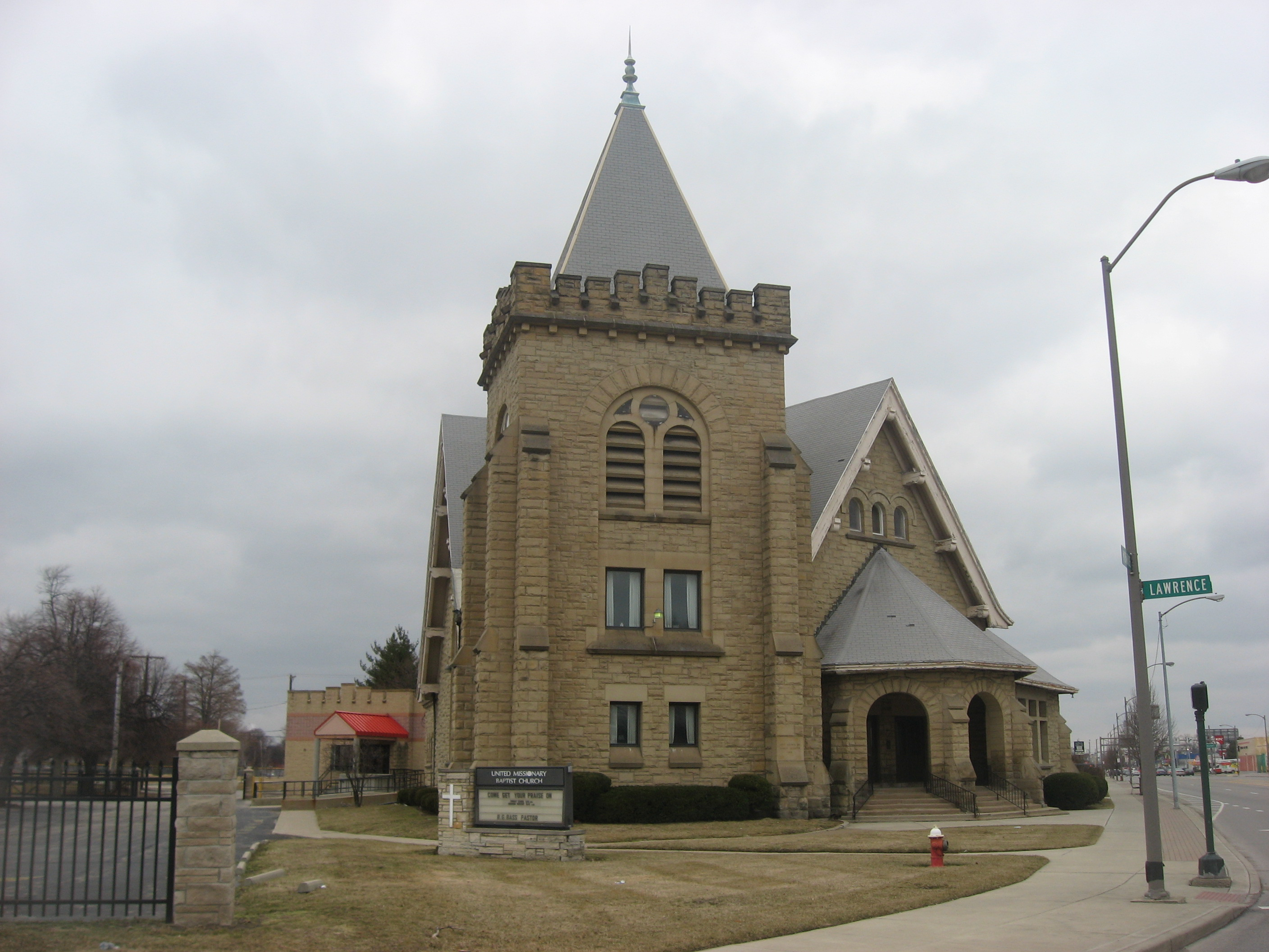 Front and southern side of the former First Church of Christ, Scientist (now the United Missionary Baptist Church), located at 2704 Monroe Street (State Route 51) in Toledo, Ohio, United States. Built in 1898, it is listed on the National Register of Historic Places, and it is part of a Register-listed historic district, the Englewood Historic District.